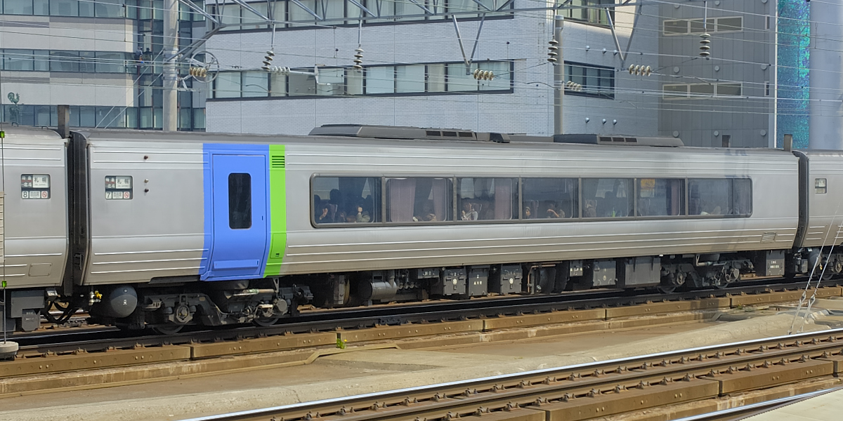 JR Hokkaido KiHa 281 series DMU car KiHa 280-101 at Sapporo Station on a Super Hokuto service